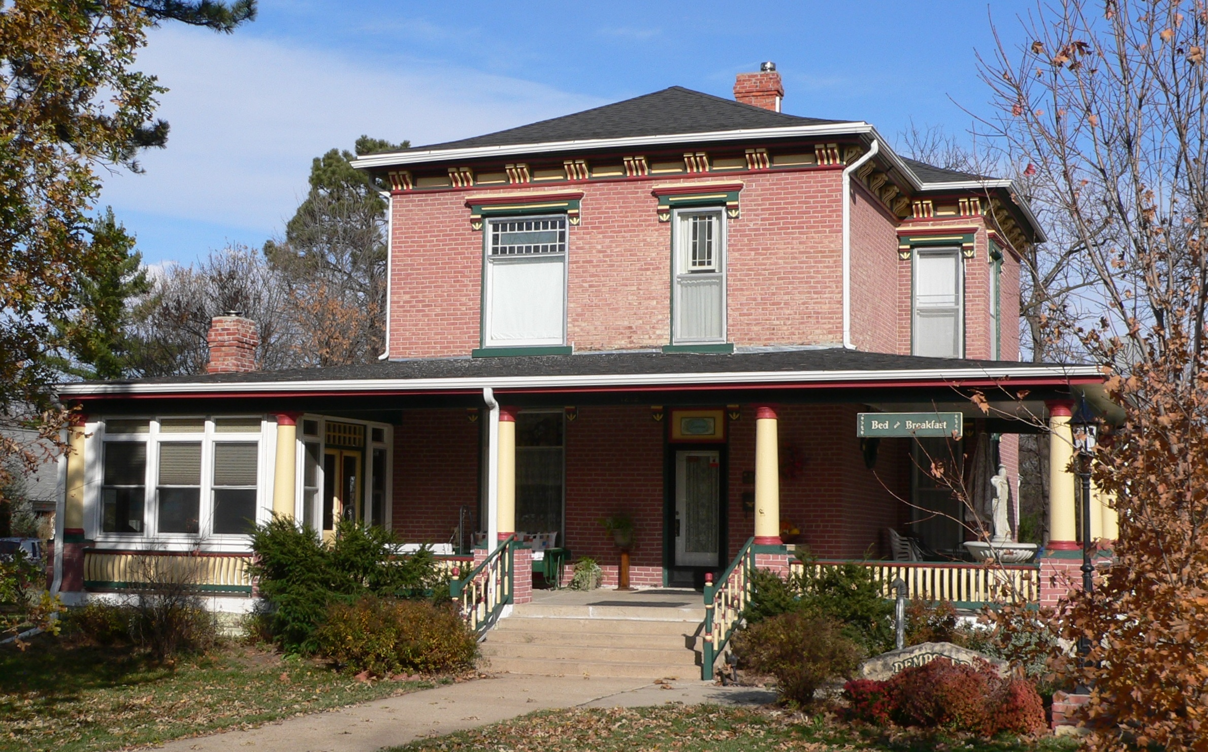 Dempster-Sloan House at 1212 M St in Geneva, Nebraska; seen from the south. The Italianate house was built in 1887; it is listed in the National Register of Historic Places. It is currently used as a bed-and-breakfast.